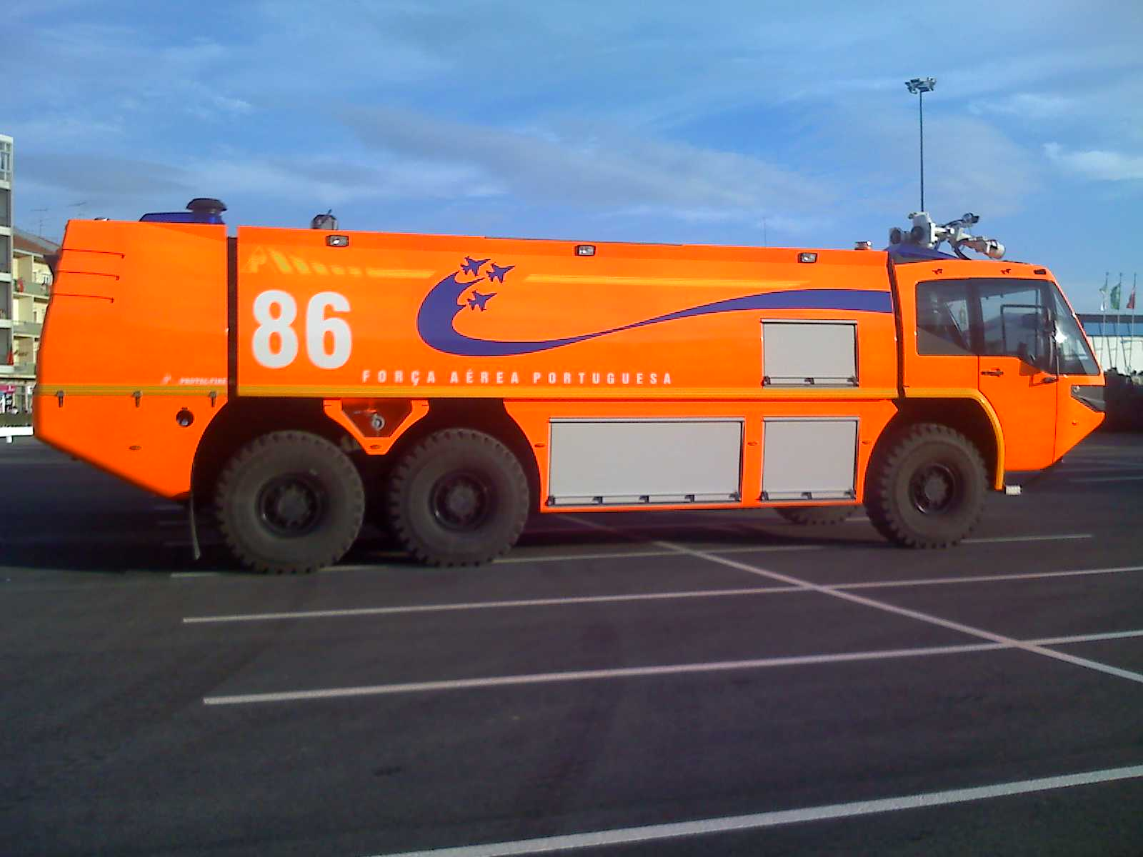 Portuguese Air Force aircraft fire vehicle PROTEC-FIRE MTEC 670